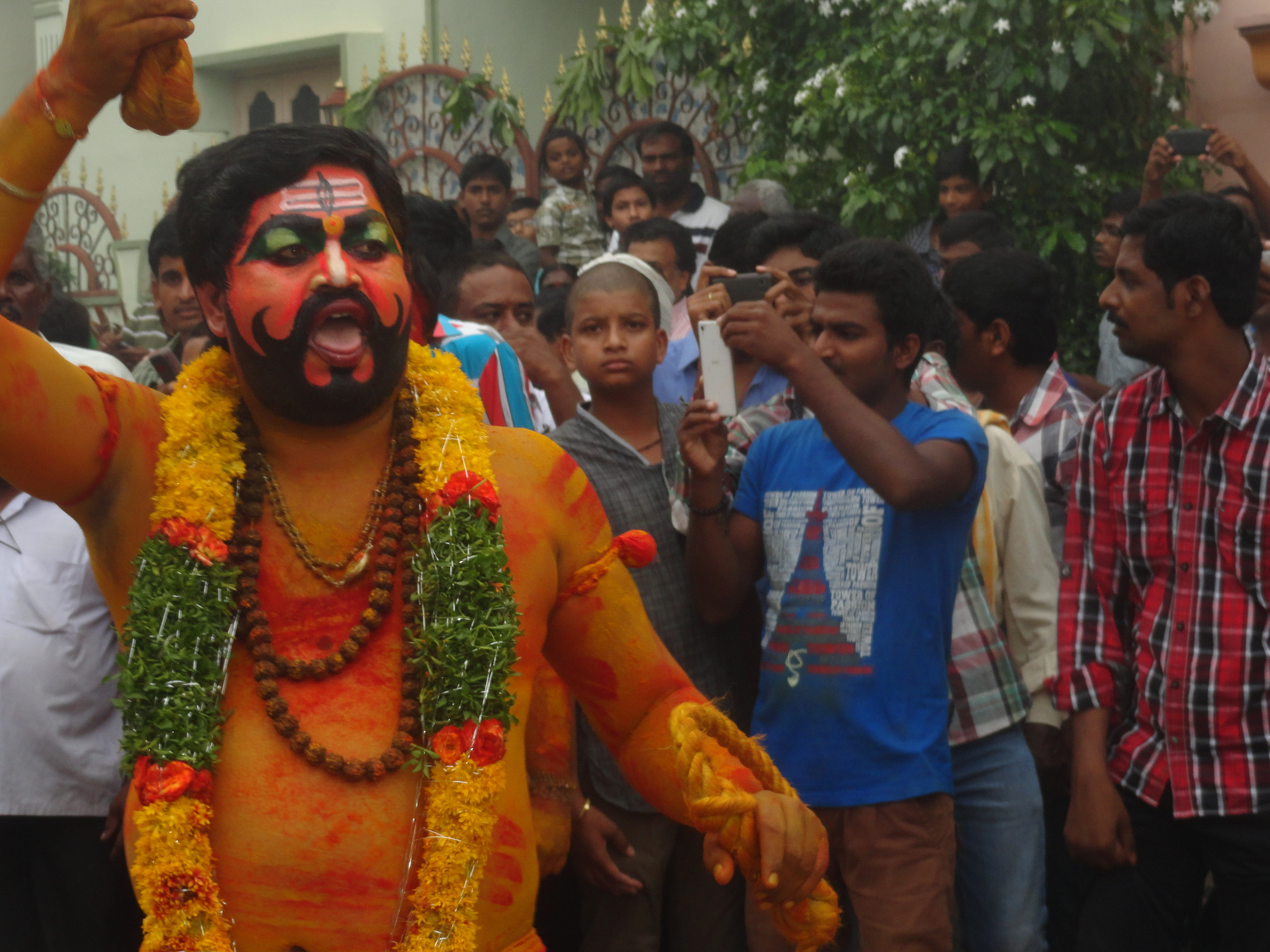 poturaaju in front of Goddess procession